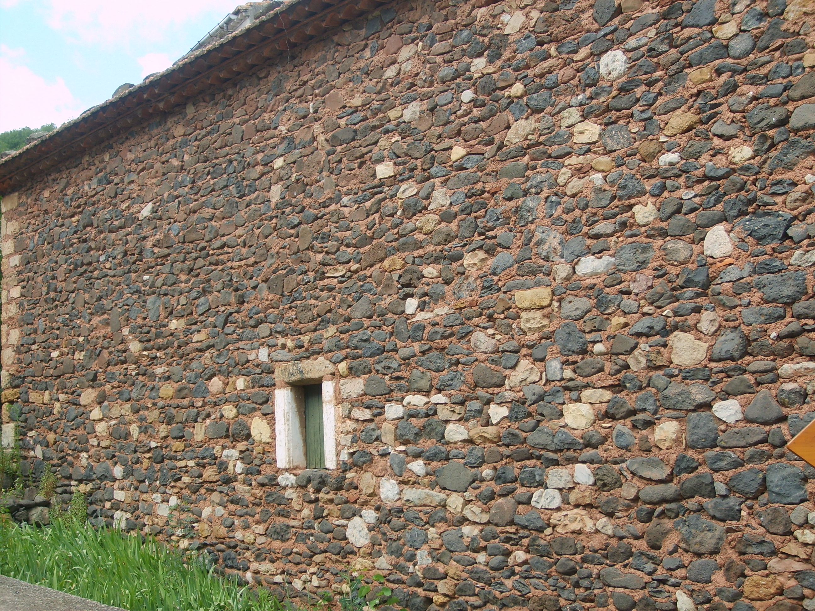 Stone wall, in Octon (Hérault) in France.